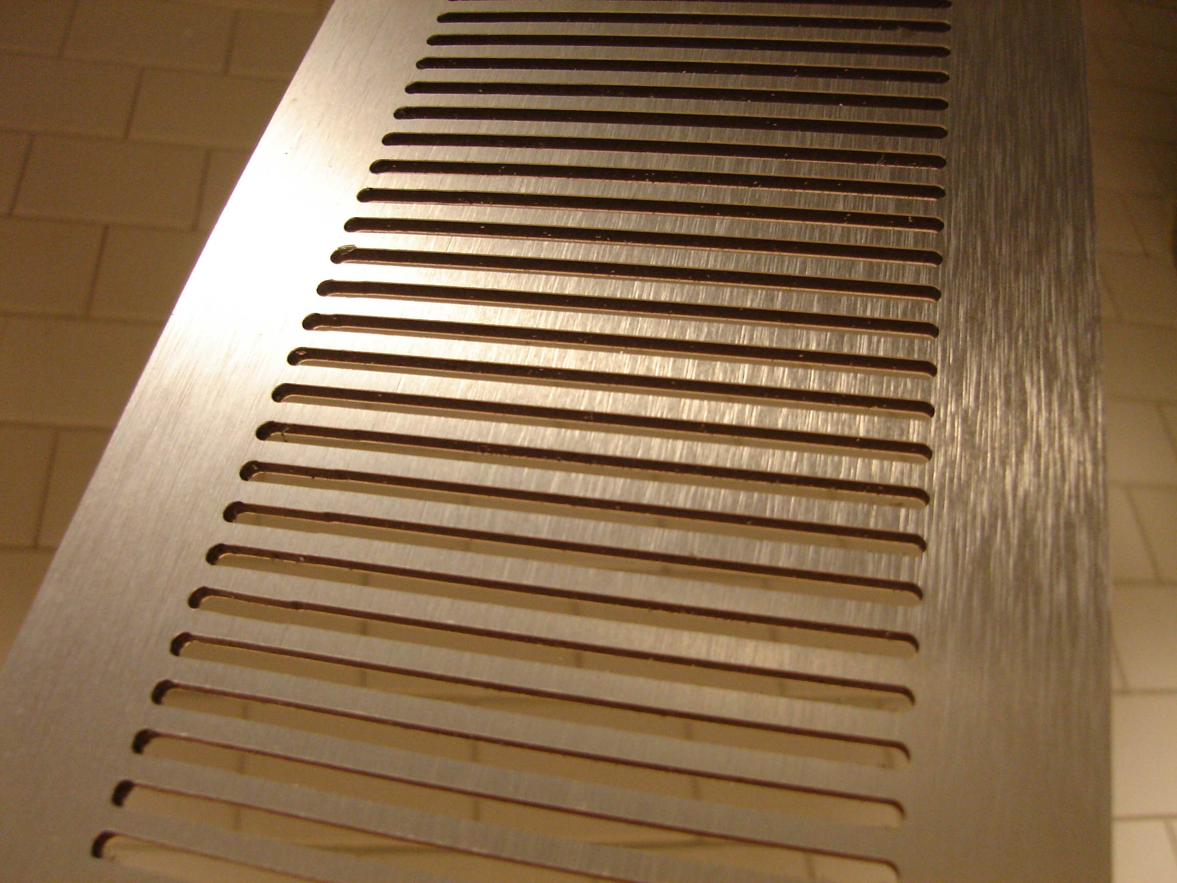 CNC Machined DiBond